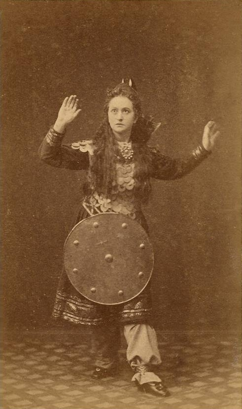 From the play Vikings at Helgeland in Bergen 1859. The Theater archive, University of Bergen.